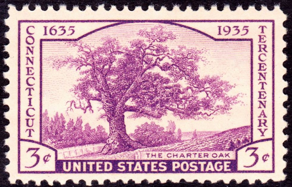 Connecticut charter 300th anniversary was commemorated by a 3-cent stamp on April 26, 1935. The charter was granted by Charles II and hidden from the agents of James II under this tree considered sacred by the Indians of the area.